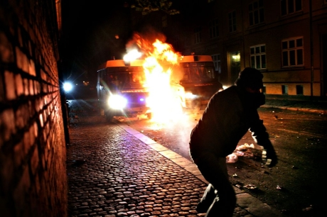 Protester throwing Molotov Cocktail at a police van in Christiana